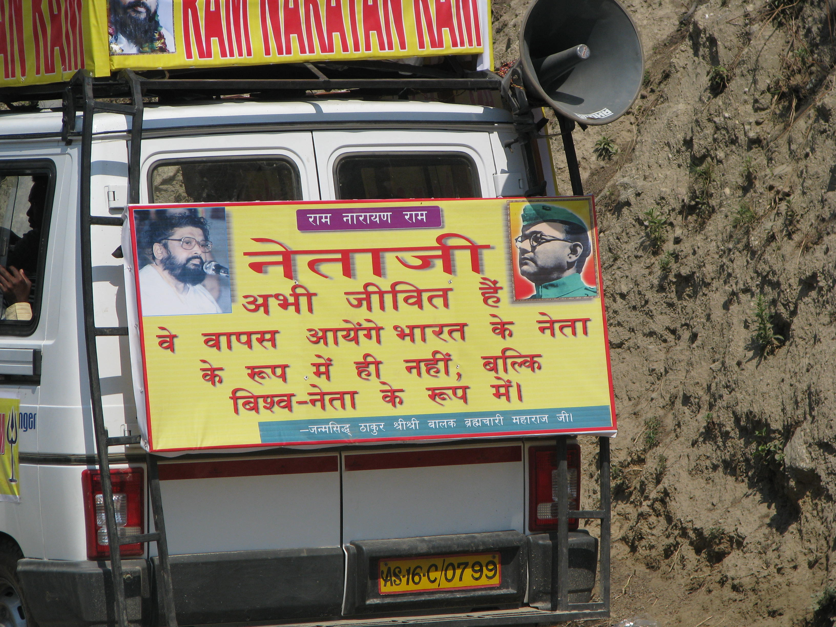 An example of the enduring legacy of Subash Chandra Bose, Arunachal Pradesh, India